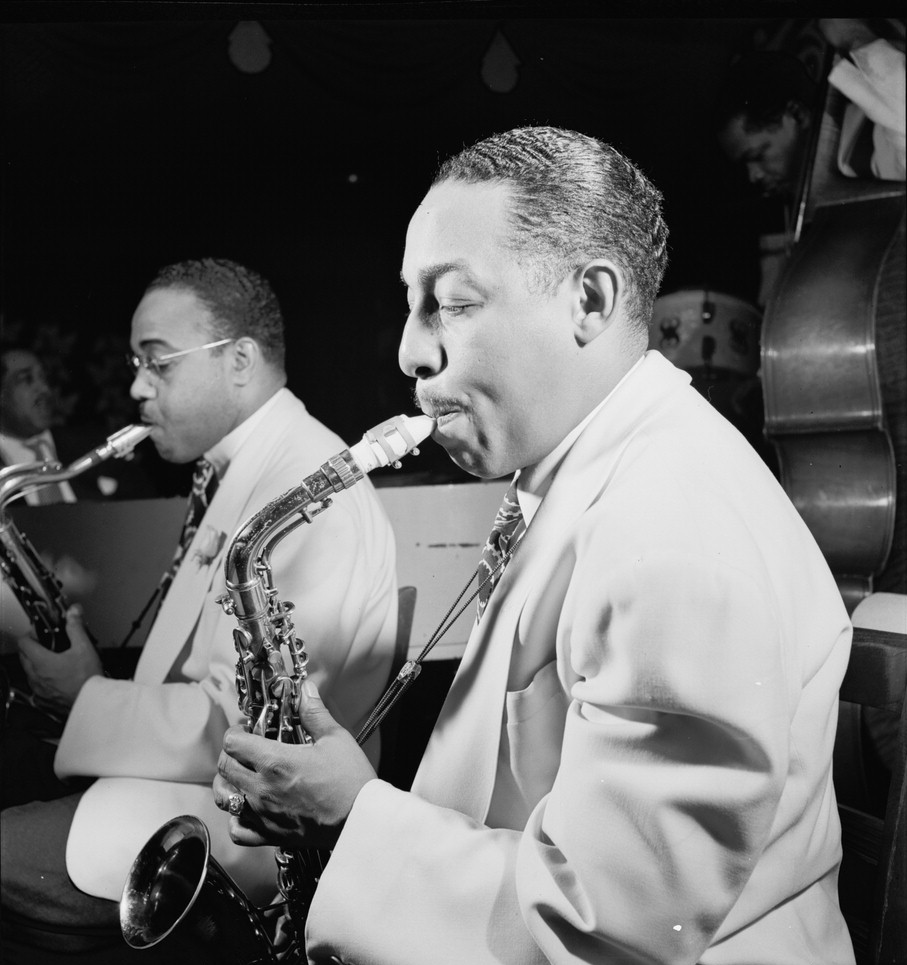 Johnny Hodges (foreground) and Al Sears, Aquarium, New York. Hodges is playing a Conn 6M alto saxophone.